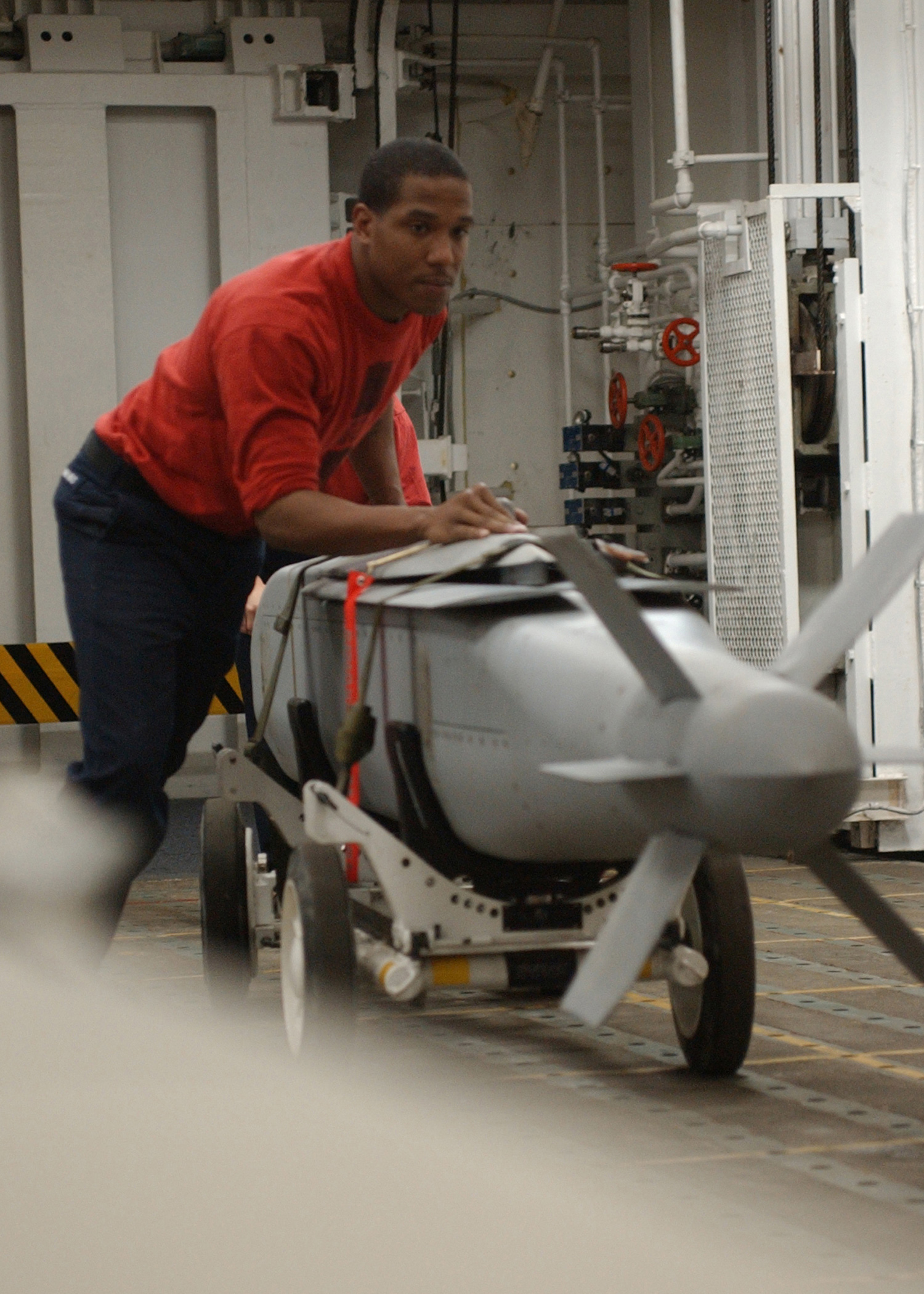 AGM-154 JSOW